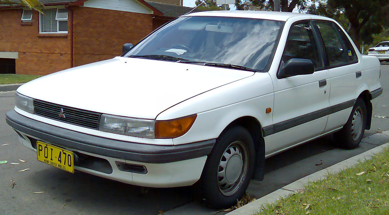 1989 Mitsubishi Lancer (CA) GLX sedan. Photographed in Gymea, New South Wales, Australia.